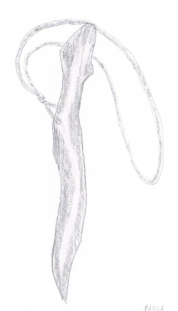 Pahua